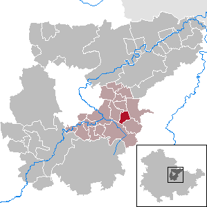 Kleinschwabhausen in Thuringia - District Weimarer Land